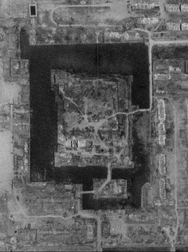 Comparative Aerial Imagery of the Hiroshima Castle Post-Nuclear Blast.